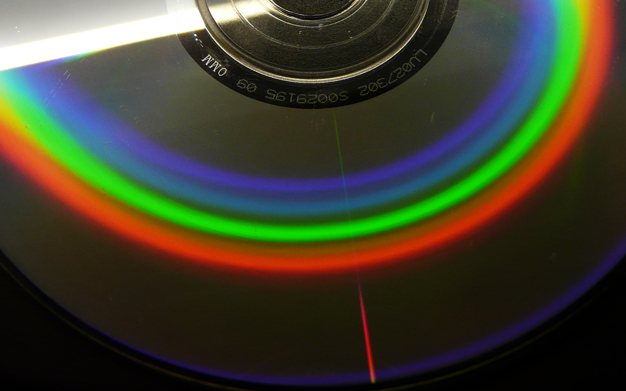 Photograph of a Fluorescent tube light reflected in a CD, showing distinct bands of colour.